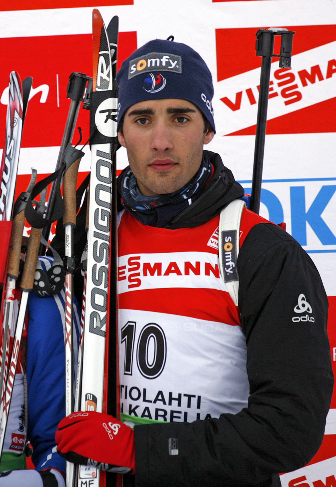 Martin Fourcade, E.ON RUHRGAS IBU WORLD CUP - Kontiolahti (FIN)